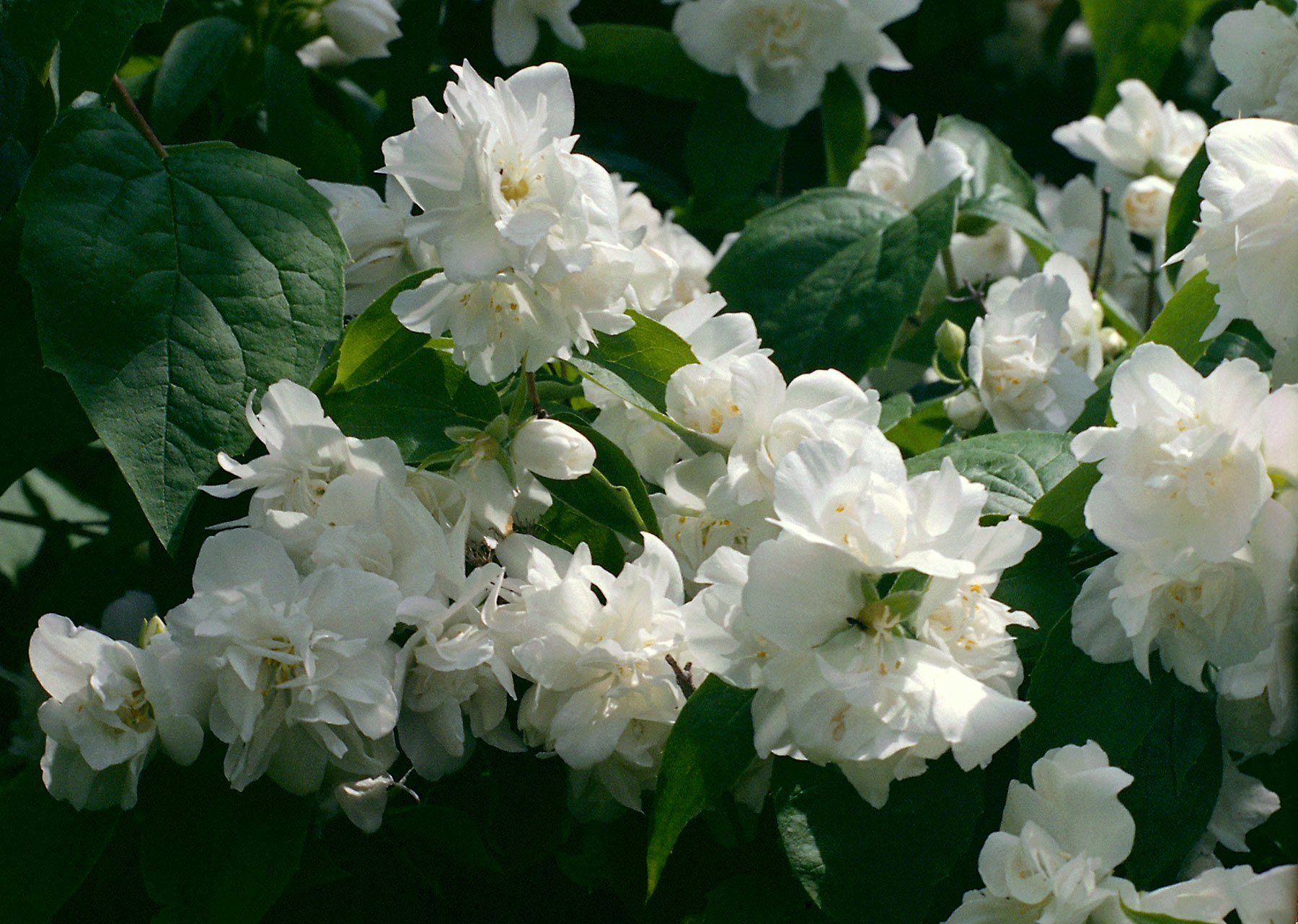 Philadelphus in National M. M. Grishko botanical garden (Kiev, Ukraine)